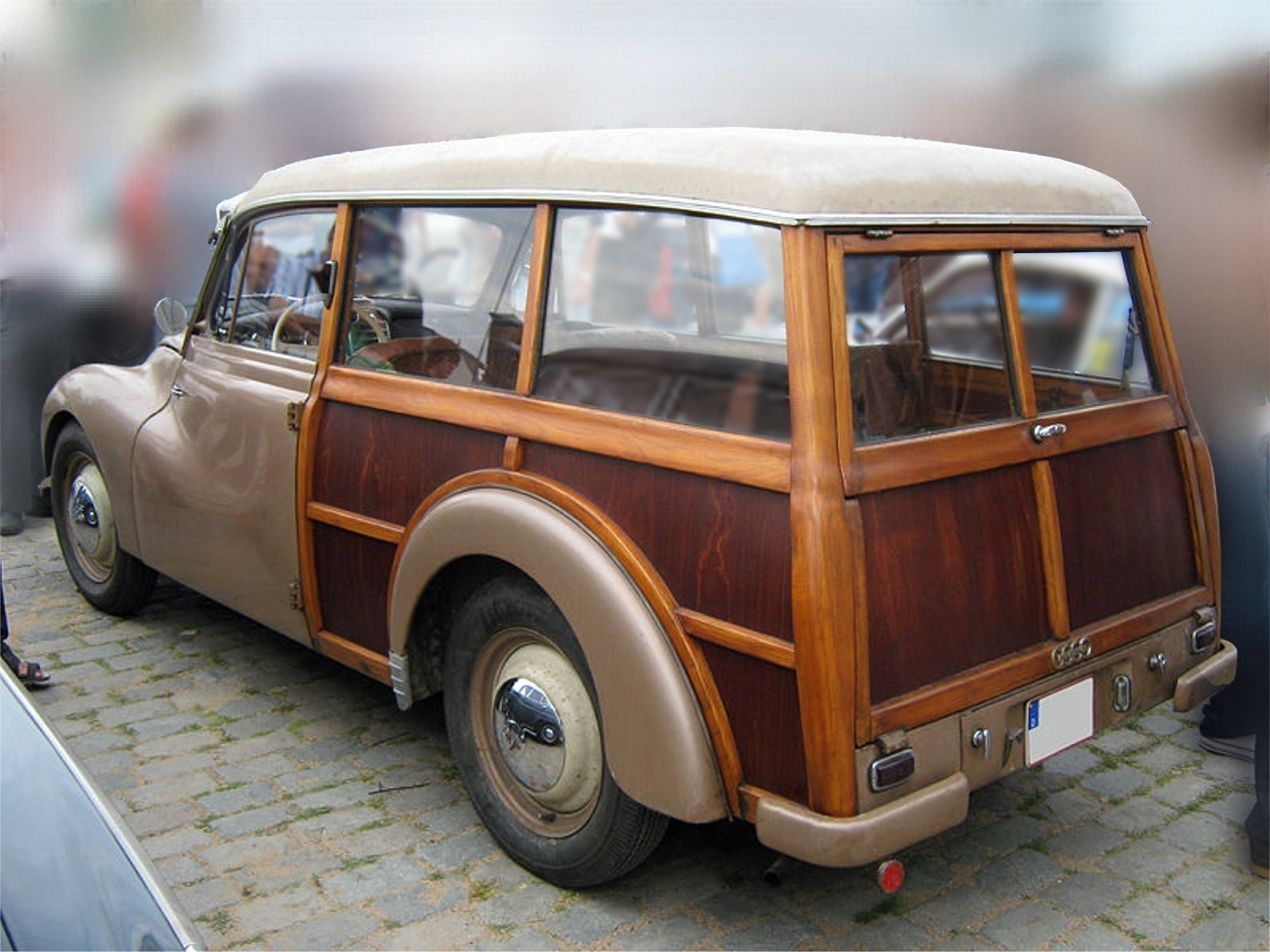 DKW F89 Universal Meisterklasse rear view 1951